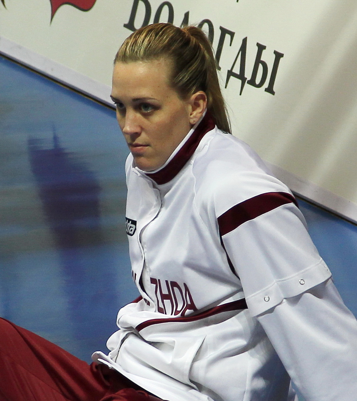 Russia, Vologda, Kathryn Elizabeth "Katie" Douglas in game «Vologda-Chevakata» vs «Nadezhda» (Orenburg)